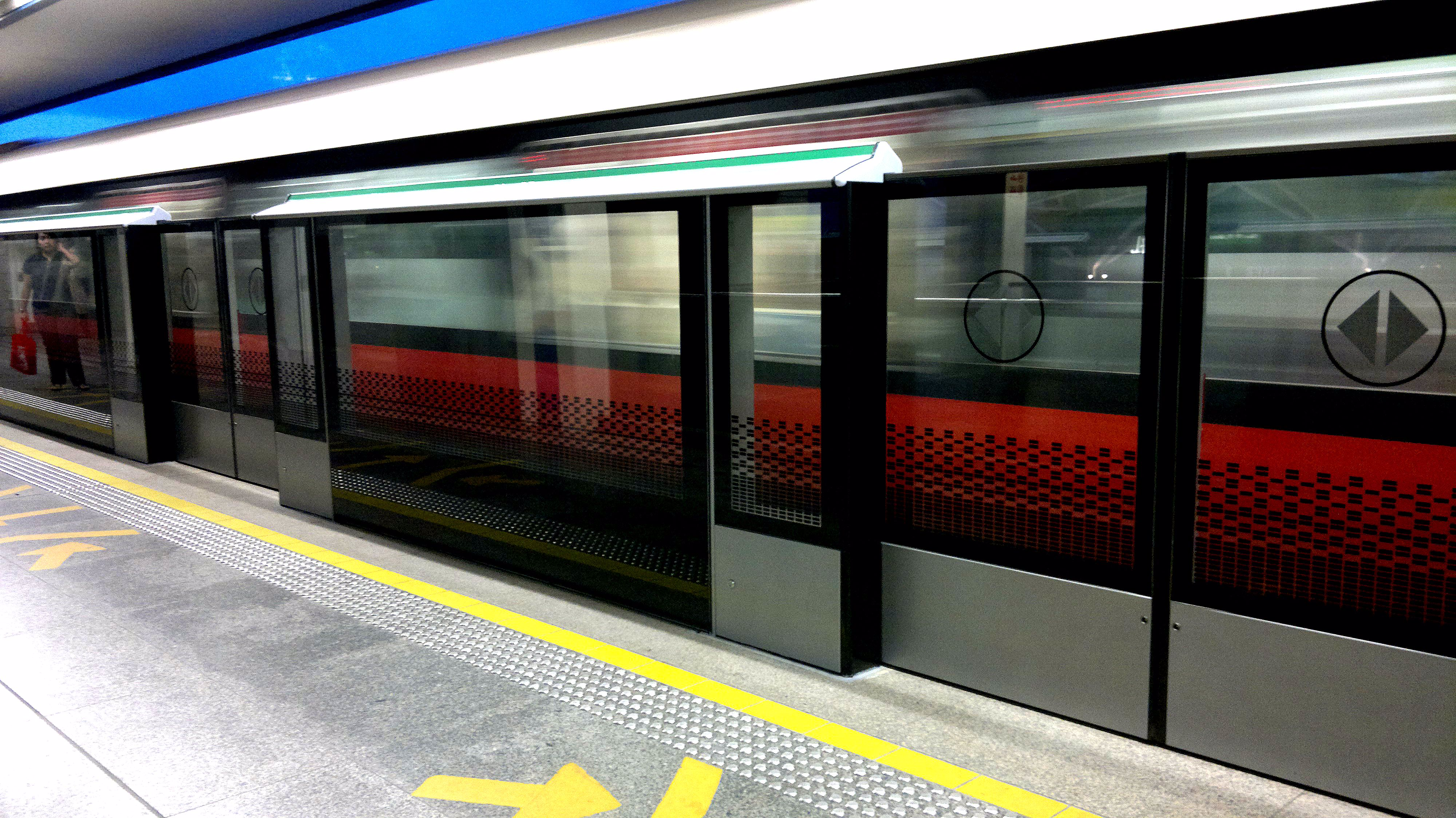 Half height screen doors in the Boon Lay station of the Singapore MRT.